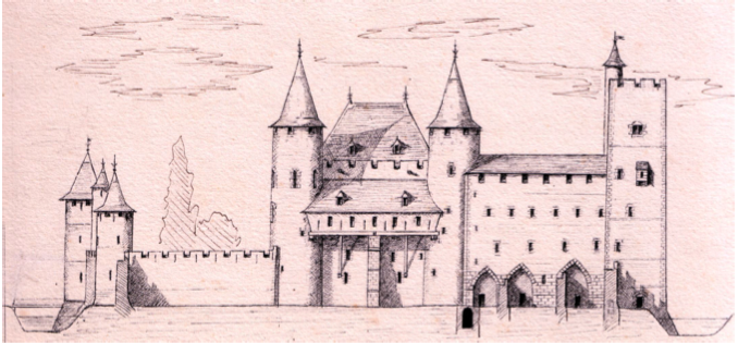 le château de Nemours au Moyen-Age avec donjon, coursive en bois, galerie et tour de guet